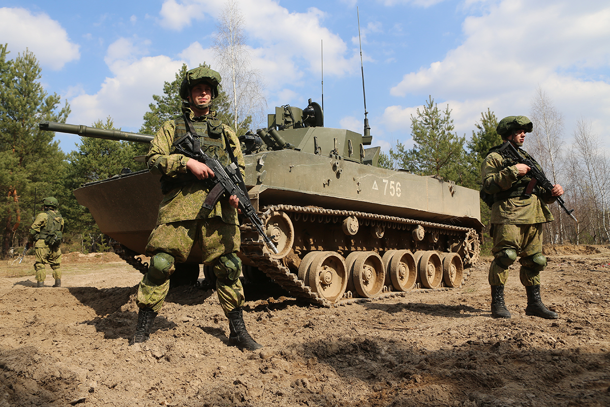 BMD-4M